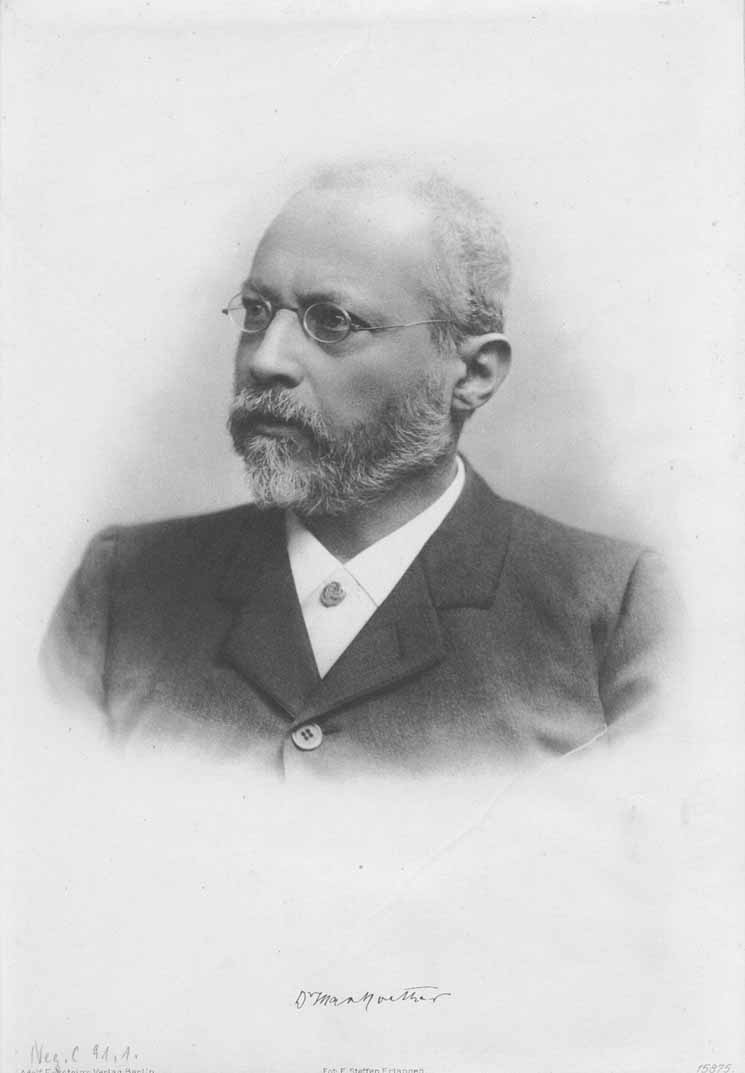 Faculty image of Max Noether from his years at the University of Heidelberg